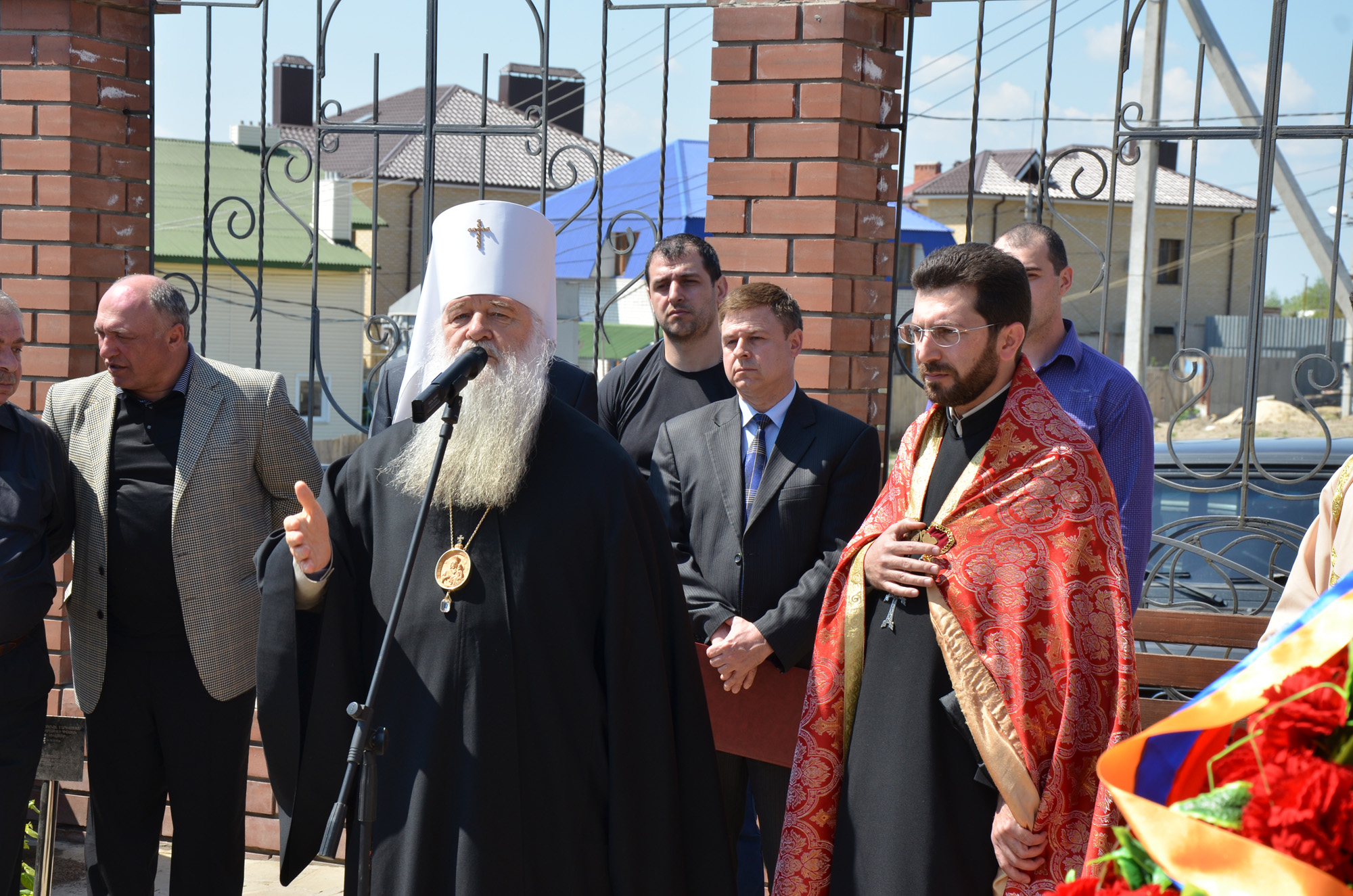 Genocide meeting 24.03.2012 in armenian church Sourb Gevorg